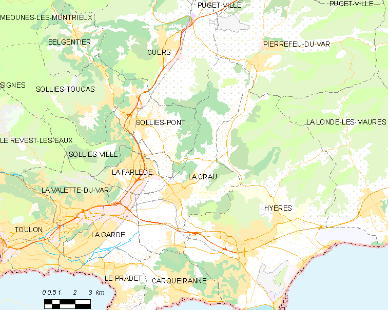 Map of French municipality La Crau